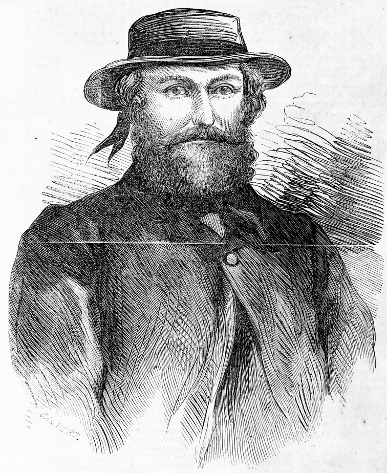 Ben Hall, the bushranger; print from a wood engraving